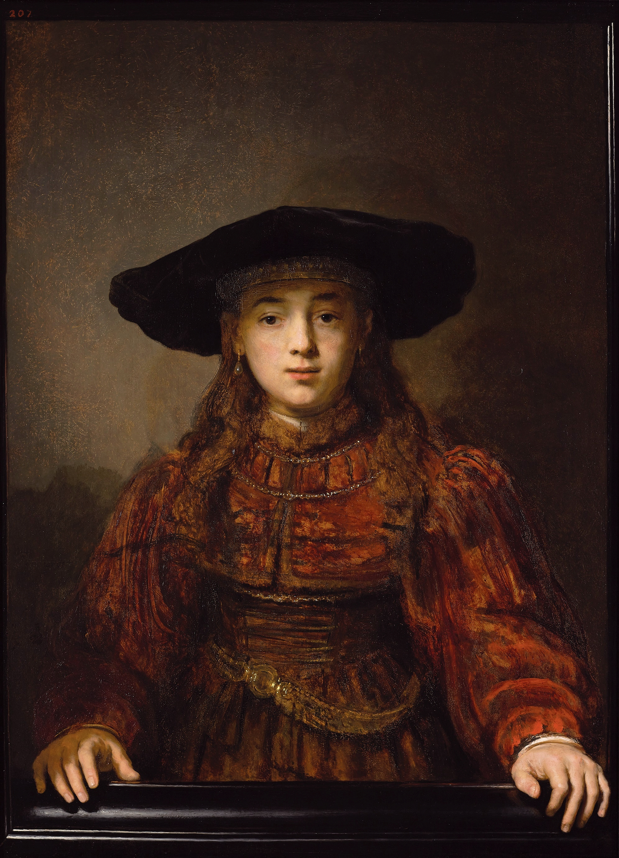 Pendant of Scholar at his Writing Table.